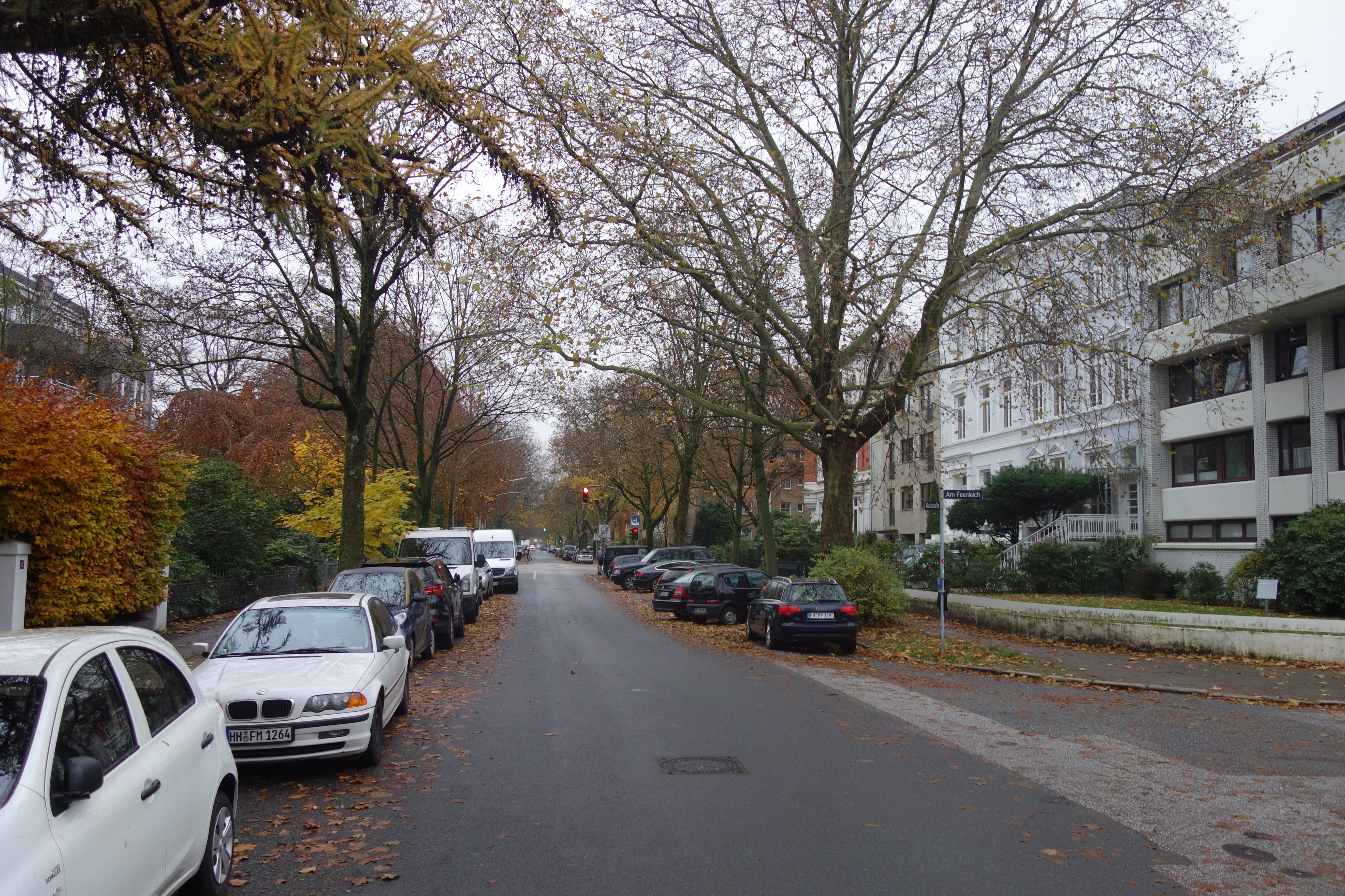 Street in Hamburg